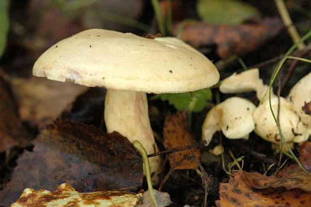 Lactarius spec. from Commanster, Belgium. The determination of the species shown in this picture has been verified.